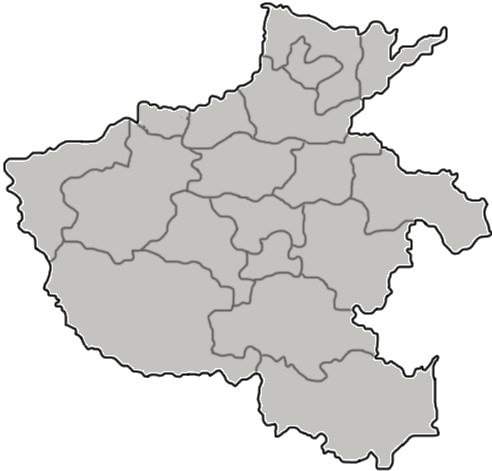 henan map